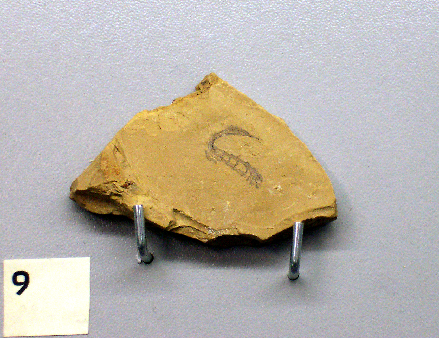 Haikouella lanceolata in Chlupáč museum in Prague